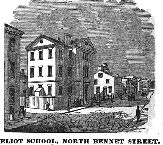 Eliot School, North Bennet St., Boston